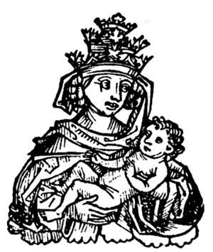 Pope Joan in papal garb holding an infant in her arms. Engraving from Hartman Schedel's Chronica Universalis or Nuremberg Chronicle, published in 1493 by Anton Koberger.